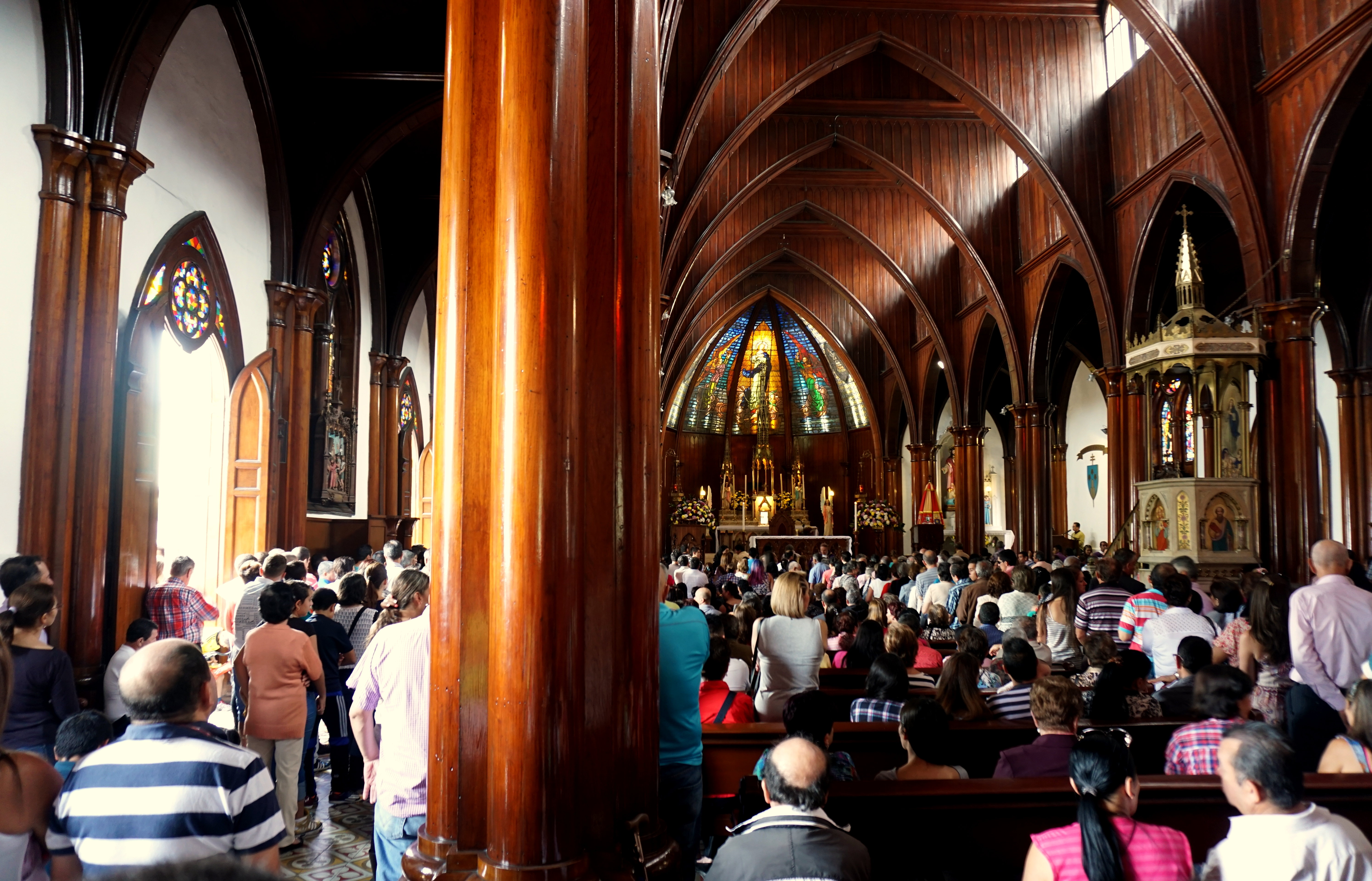 Eucharist in Basílica Menor Inmaculada Concepción, Manizales